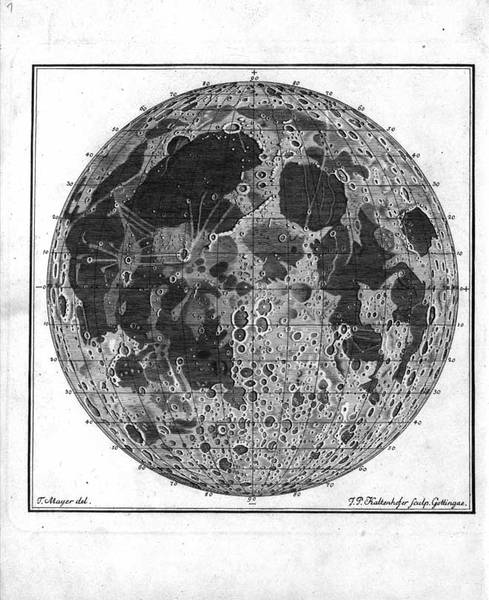 Map of the Moon by Tobias Mayer. Mayer drew the map with a diameter of 40 cm. Engraved by Joel Paul Kaltenhofer with a diameter of 20 cm. Published by Georg Christoph Lichtenberg in 1775 in a collection of Mayer's unpublished work. It was the first map of the Moon with a coordinate grid. Though Mayer put great value on accurate positions, the grid was not in his original drawing. It was added by Kaltenhofer on Lichtenberg's instigation (Reference: article by Both on Mayer). North is up.